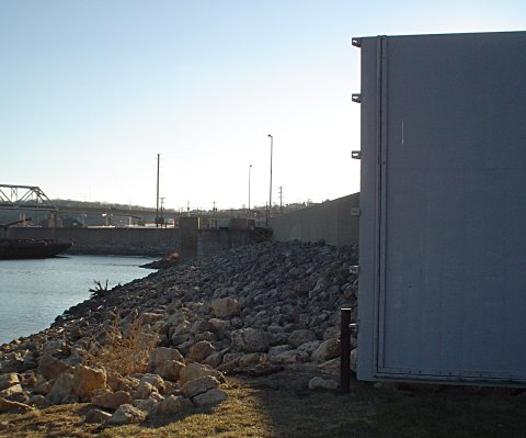 The flood wall in Dubuque, Iowa. The wall was put there to help protect the city during floods. I took this in February of 2006. Jesster79 01:57, 6 February 2006 (UTC)